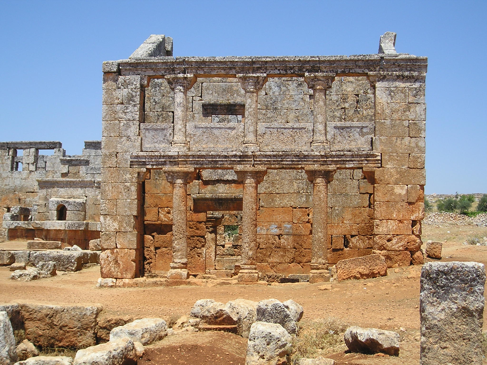 Serjilla, Syria - ruins of a 2 storey villa